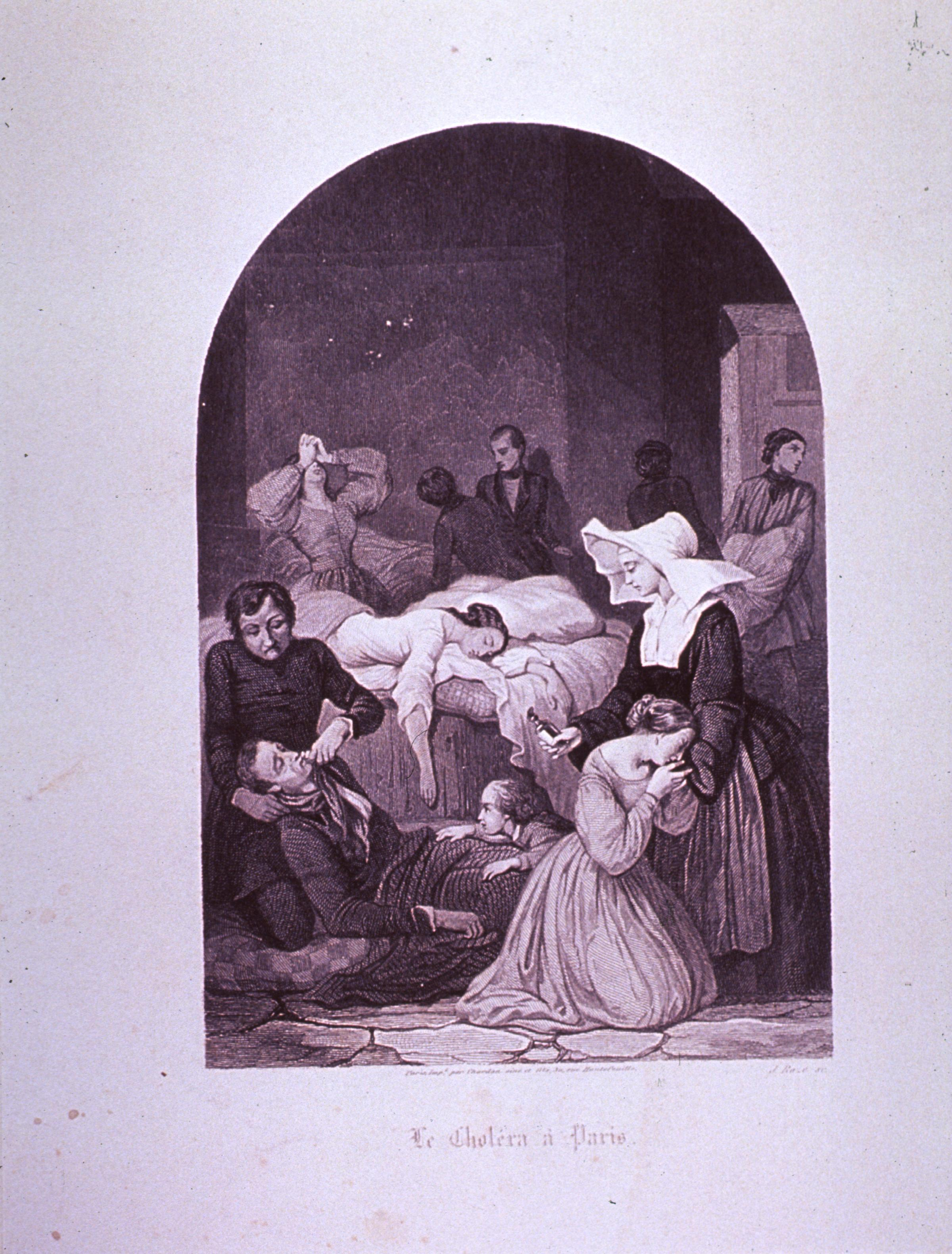 Author(s): Roze, J., engraver Publication: Paris: Impé. par Chardon ainè et fils ..., [1832?] Language(s): French Format: Still image Subject(s): Cholera Death Disease Outbreaks History, 19th Century Paris -- epidemiology Genre(s): Pictorial Works Abstract: Interior view through doorway showing the treatment of victims of the 1832 cholera epidemic. Extent: 1 print : image 26 x 18 cm., on mount 52 x 40 cm. Technique: engraving NLM Unique ID: 101392758 NLM Image ID: A021109 Permanent Link